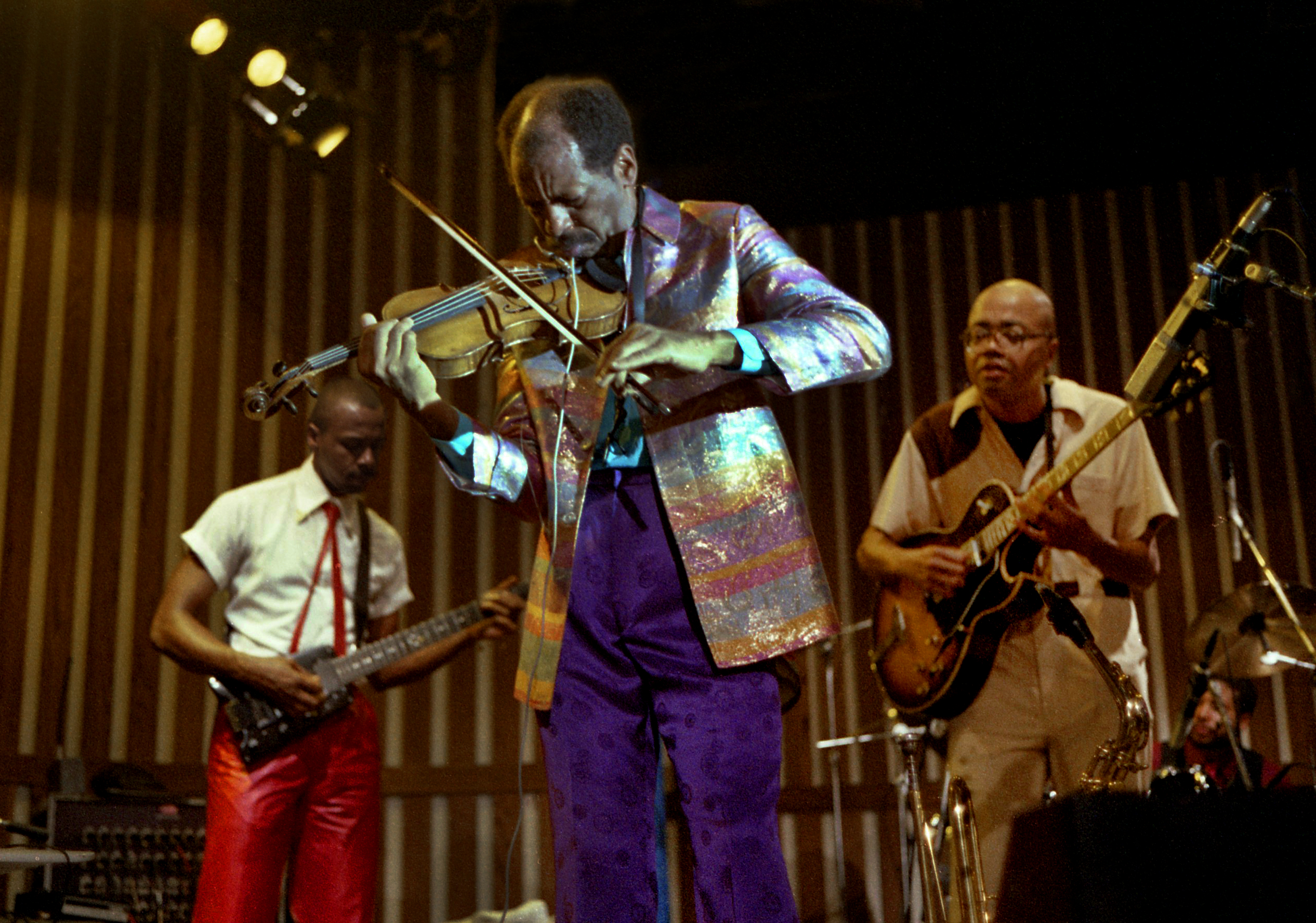 Ornette Coleman with Prime Time at the Caravan of Dreams (here with Charles Ellerbie, left, and Bern Nix, right)